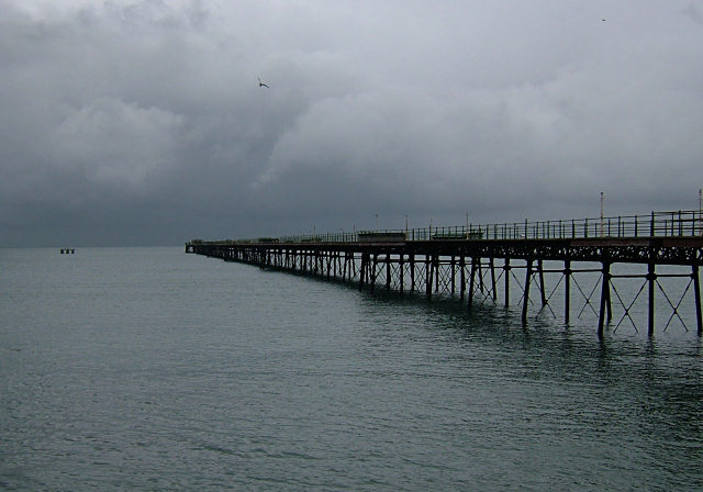 Ramsey Pier - Isle of Man. Closed to the public for many years, the future of the pier hangs in the balance.